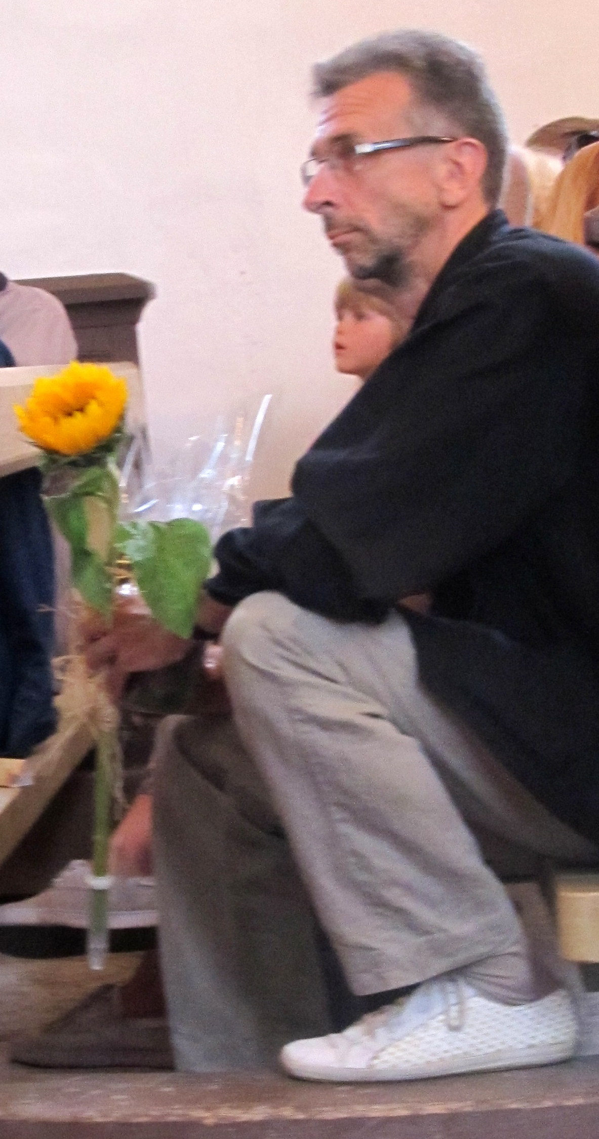 Estonian composer Erkki-Sven Tüür in Pühalepa Church